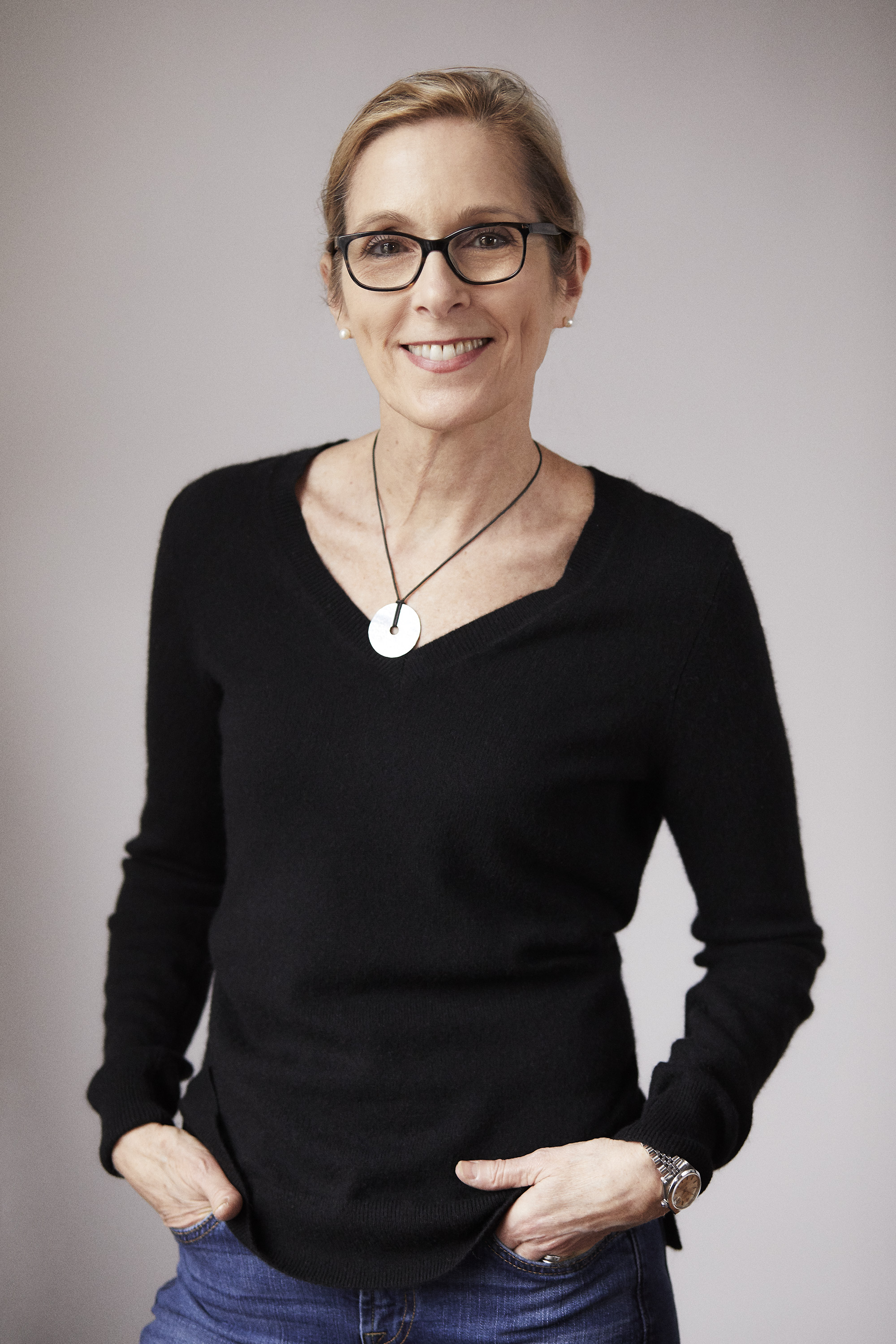 Carolyn Jones headshot